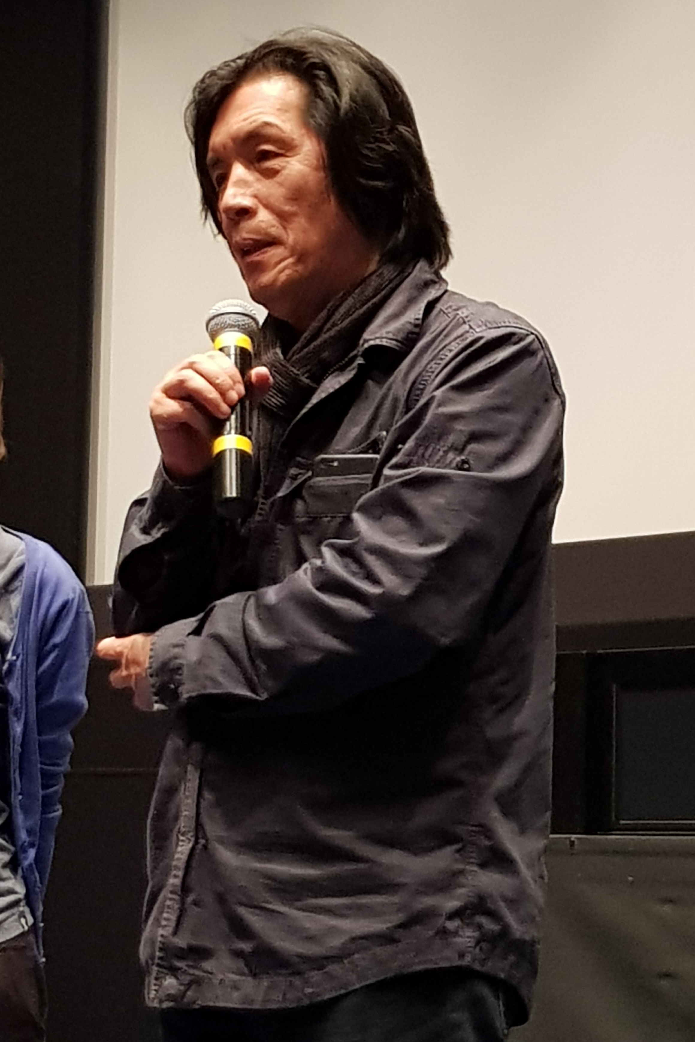 Lee Chang-dong in 2018 presenting his movie "Green Fish" at the French Cinematheque.